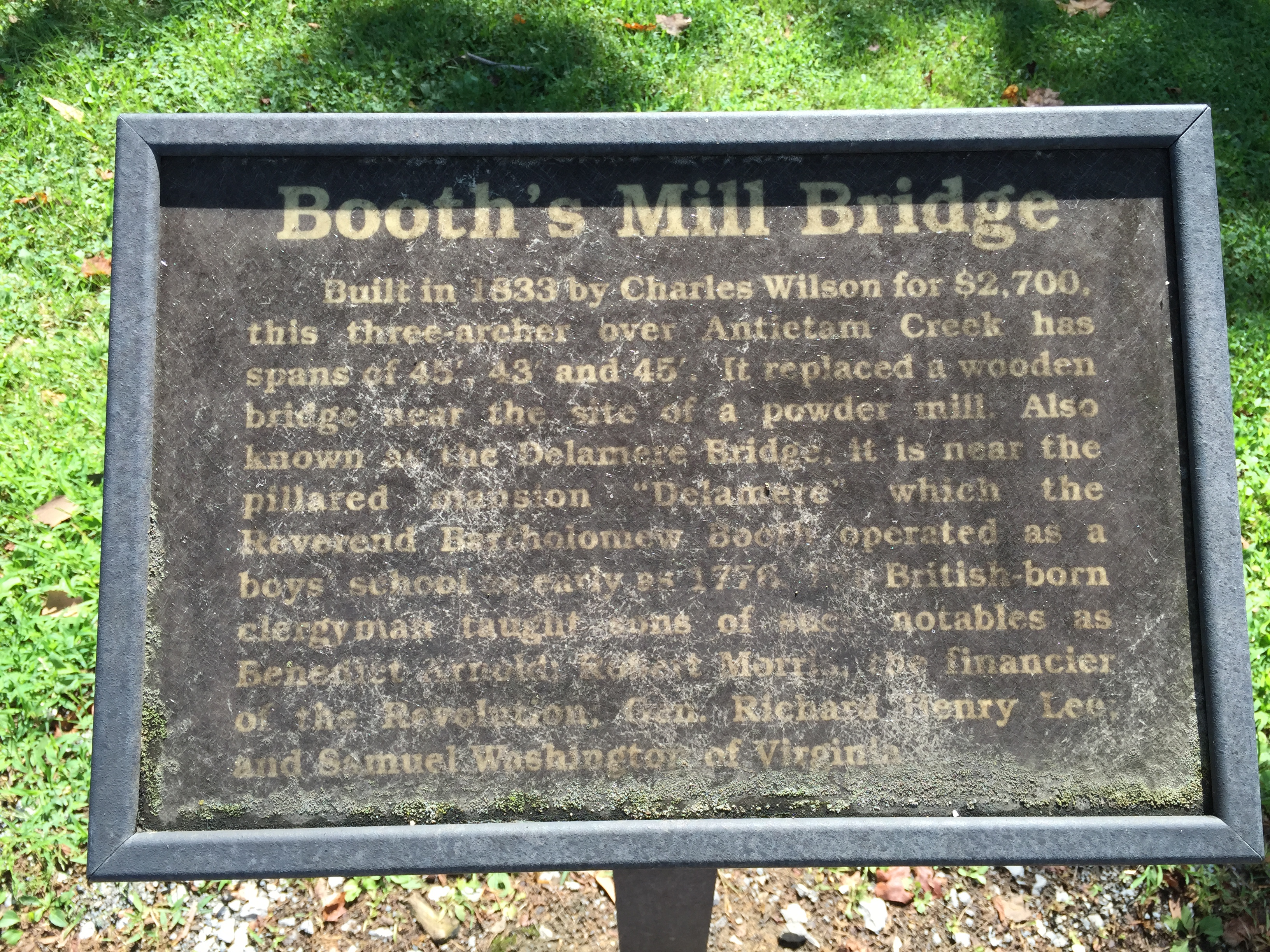 Sign describing the Booth's Mill Bridge (Maryland State Route 68) in Breathedsville, Washington County, Maryland